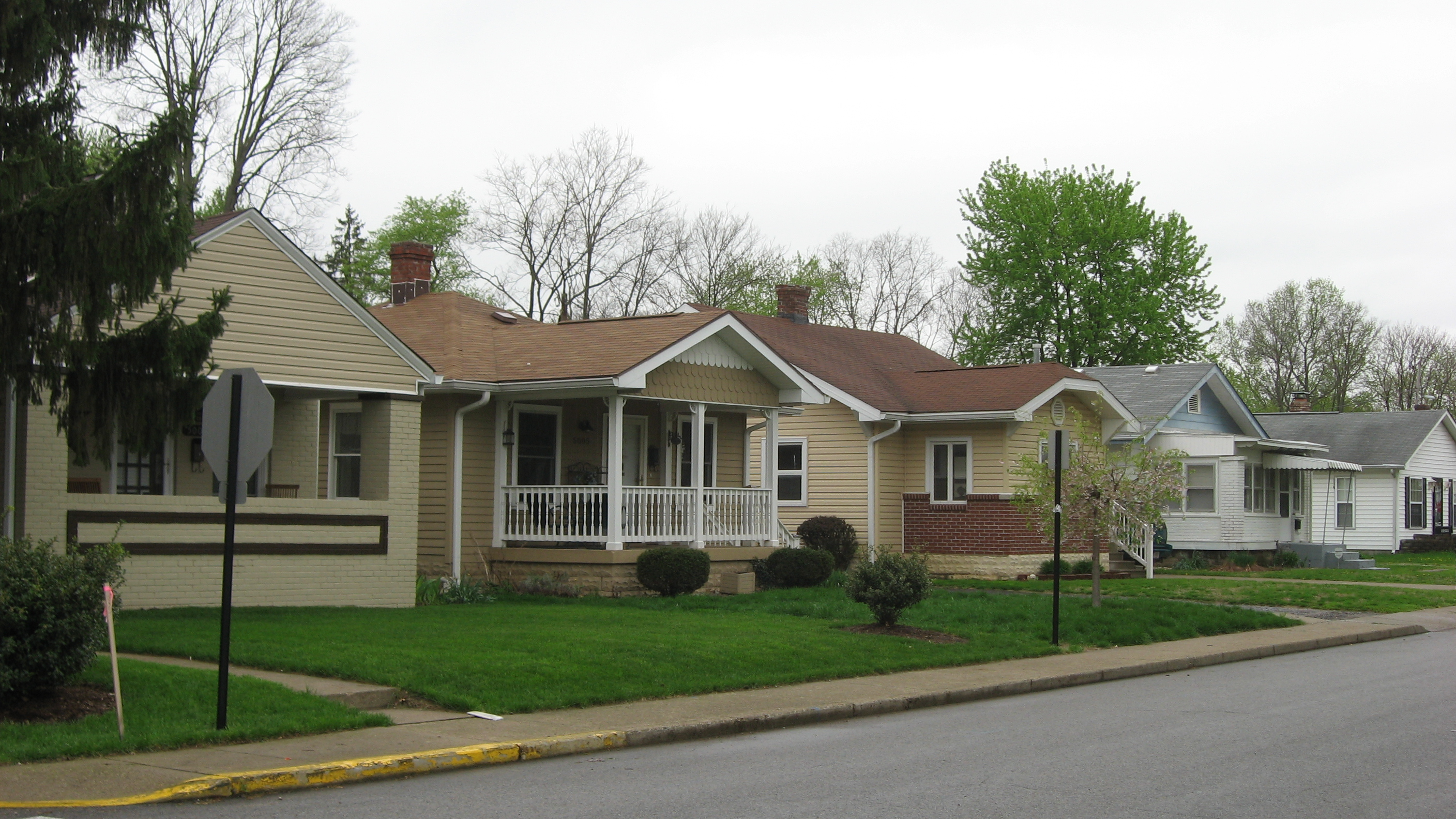 Houses on the southern side of the 5000 block of W. Twelfth Street in Speedway, Indiana, United States. This block is part of the Speedway Historic District, a historic district that is listed on the National Register of Historic Places.